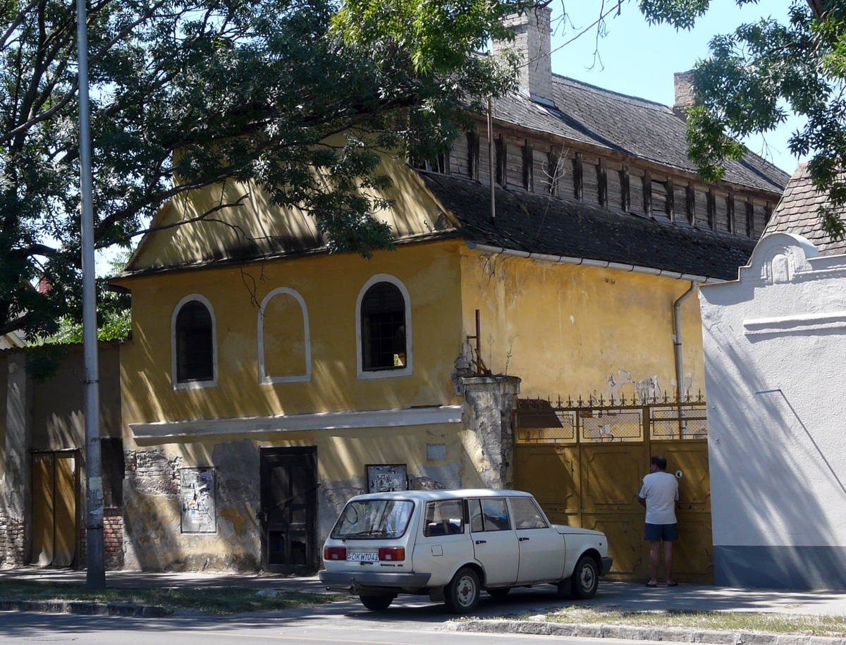 Nagykőrös (Hungary)